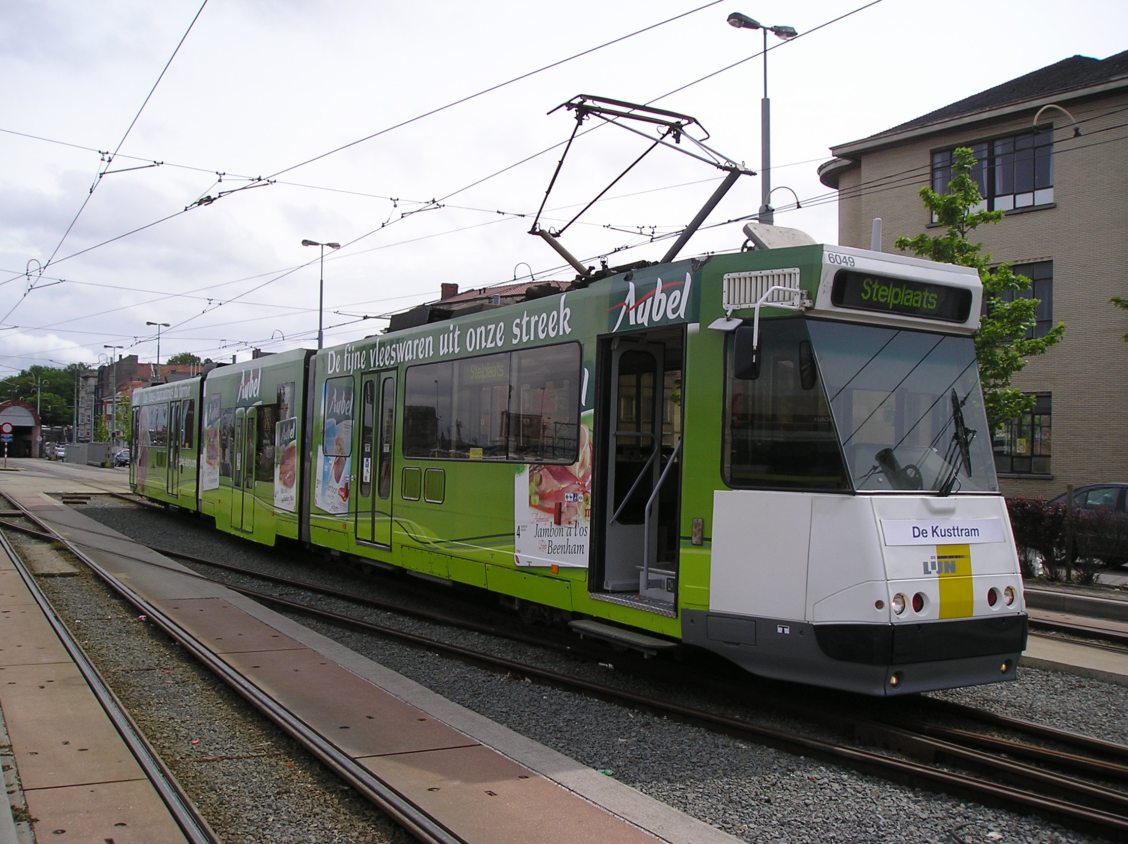 Kusttram (Coastal tram), depot in Ostend, near the tram station.